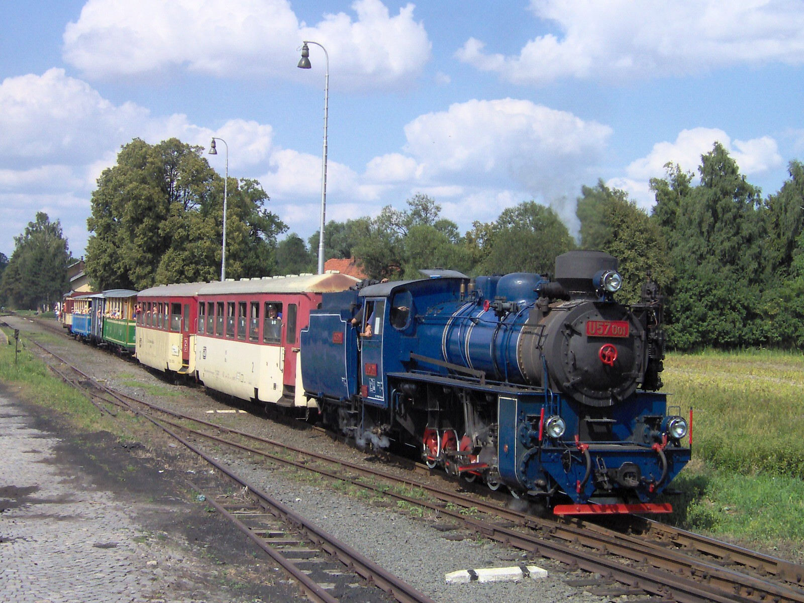 Narrow gauge steam locomotive U 57.001, Osoblaha, Czech Republic